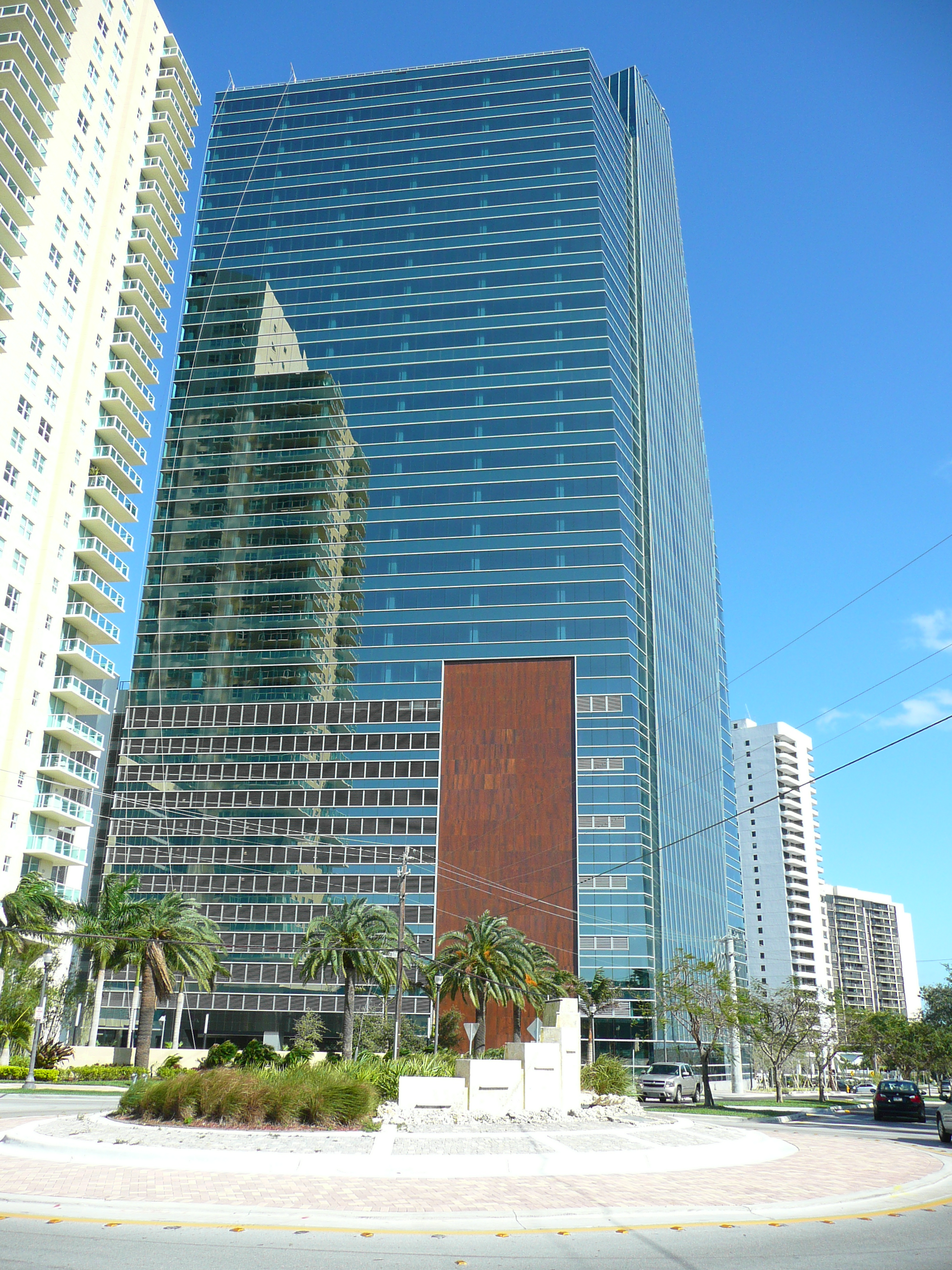 Digital photo taken by Marc Averette. Backside of 1450 Brickell in Downtown Miami, Florida, United States.